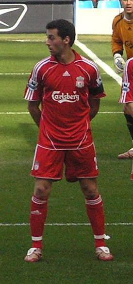 Alvaro Arbeloa, Liverpool FC player